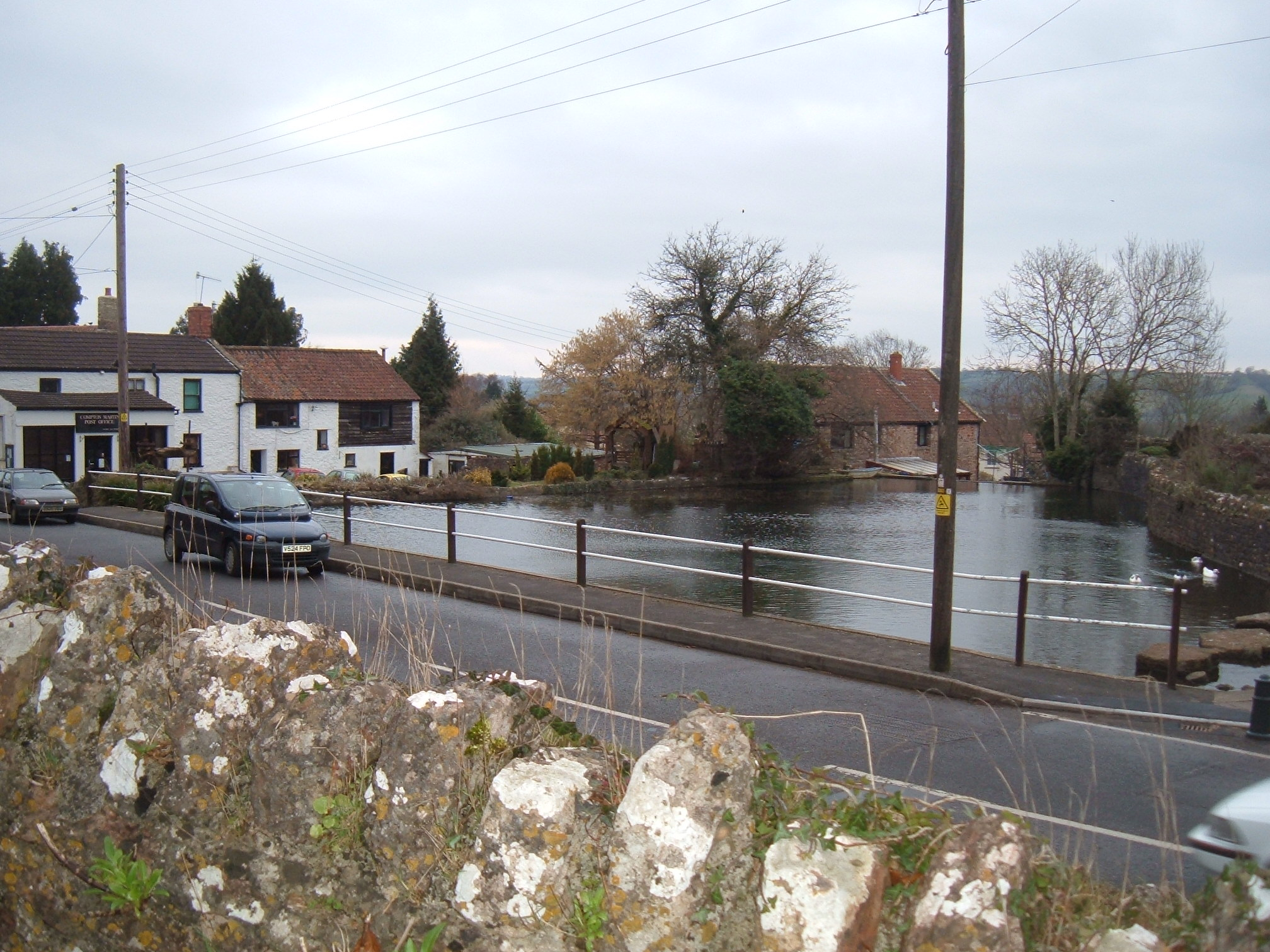 Duck Pond in Compton Martin. Taken, by Rod Ward, from the slope up to the church on Sunday 26nd Feb 2006